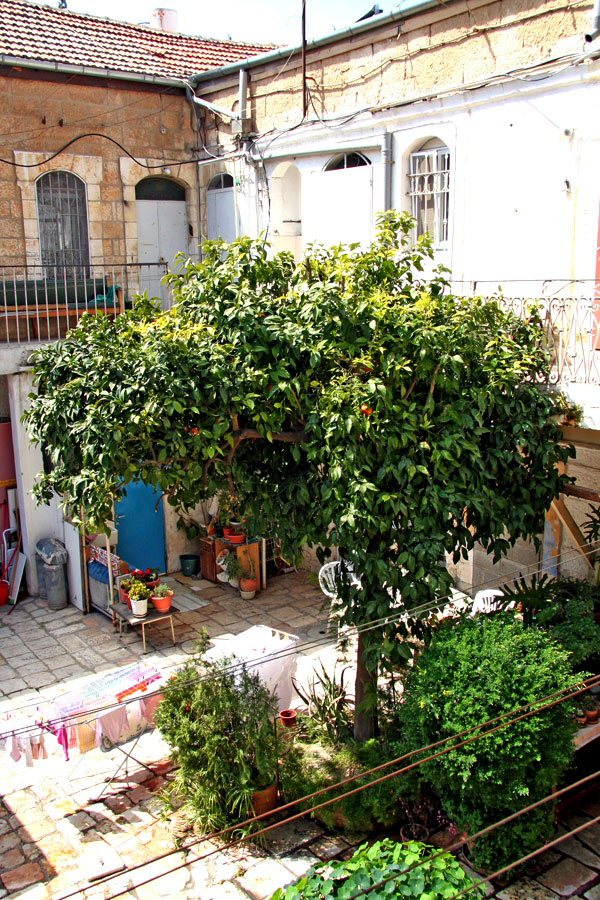 The Haji Adoniyah synagogue in the Bukhari neighbourhood in Jerusalem, Adoniyahu HaCohen street, 16. the courtyard